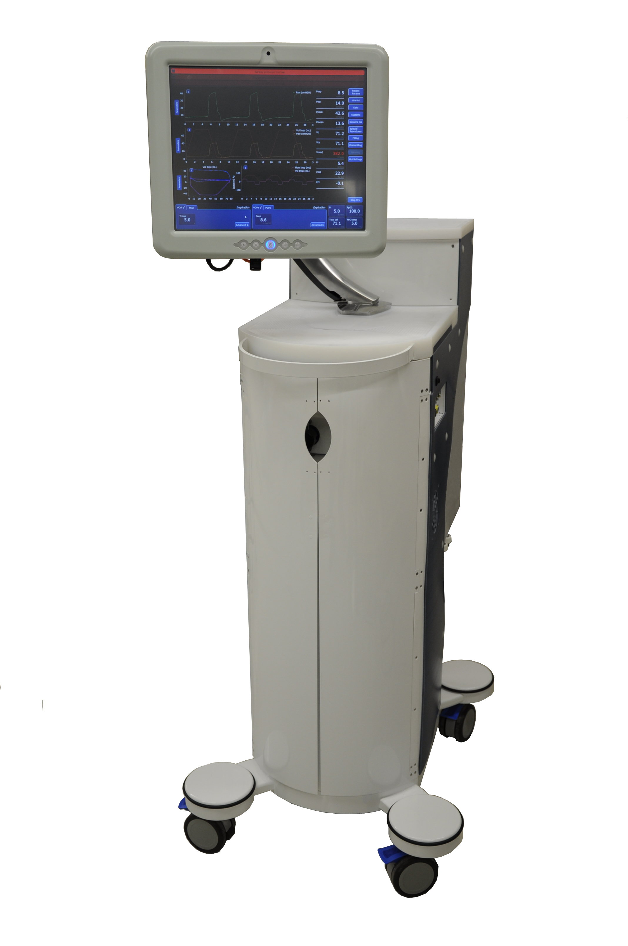 Liquid ventilator prototype Inolivent-5 of Université de Sherbrooke (QC, Canada)